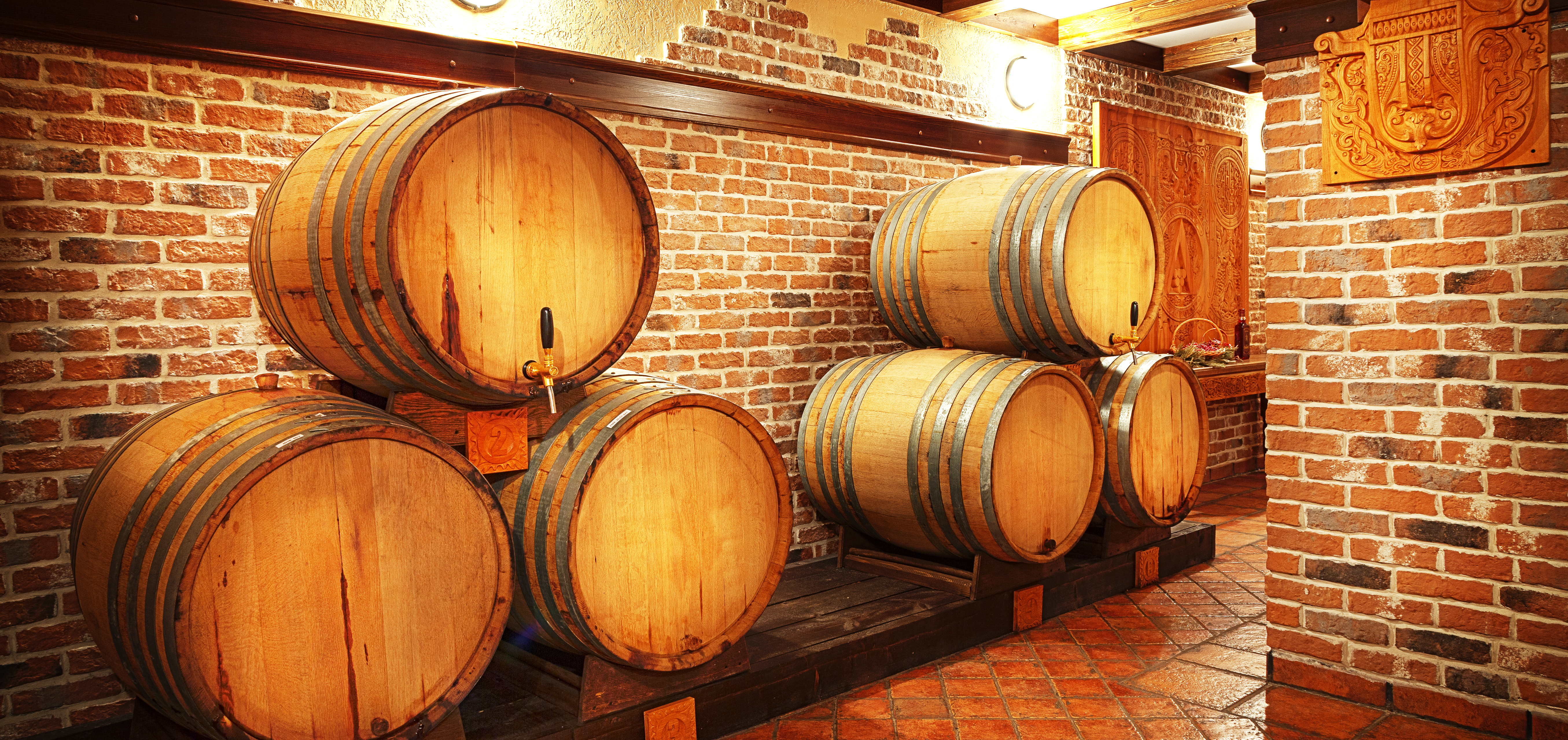 cellars of Alkon Distillery